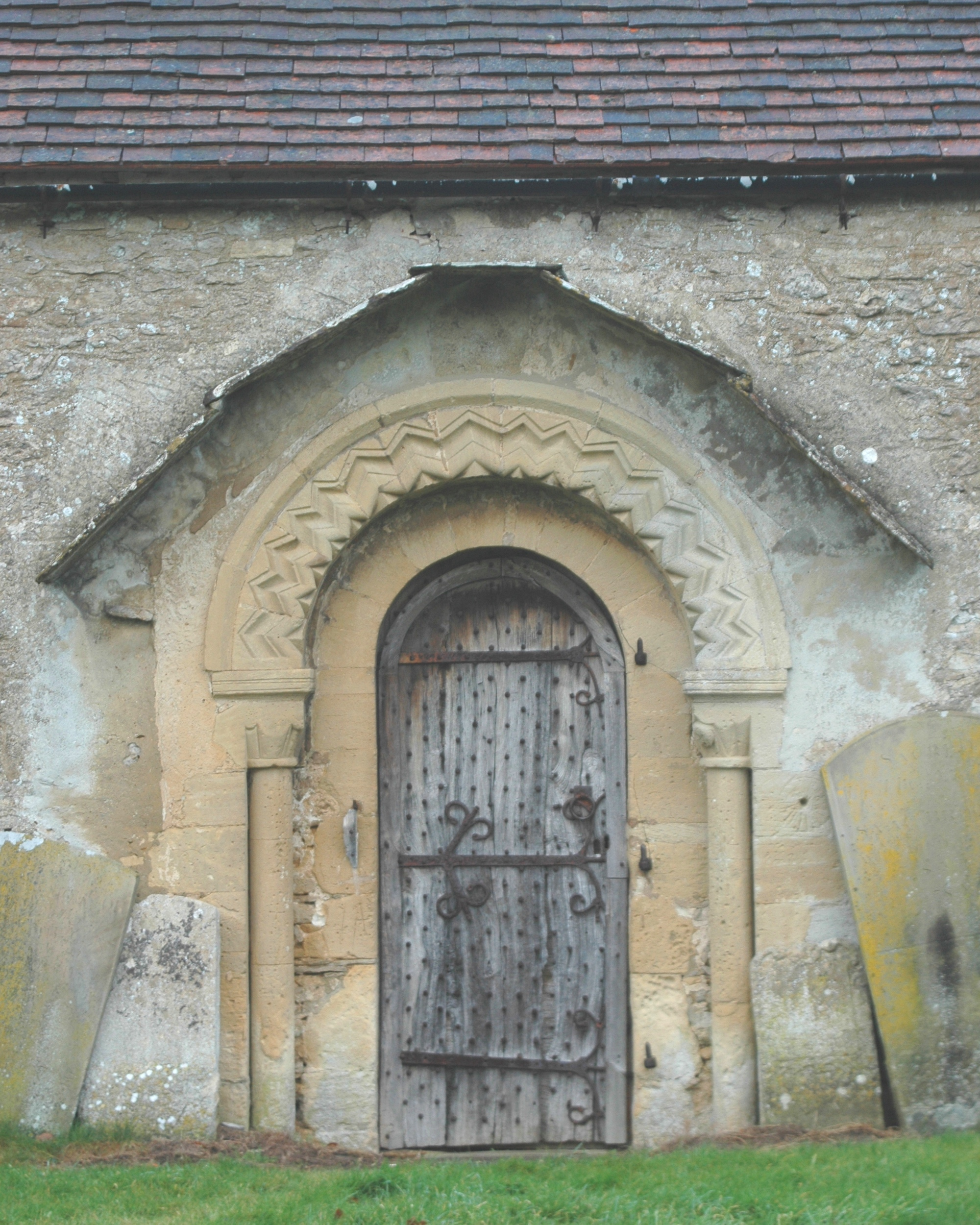 Church of England parish church of St George, Hatford, Oxfordshire (formerly Berkshire): Norman south door